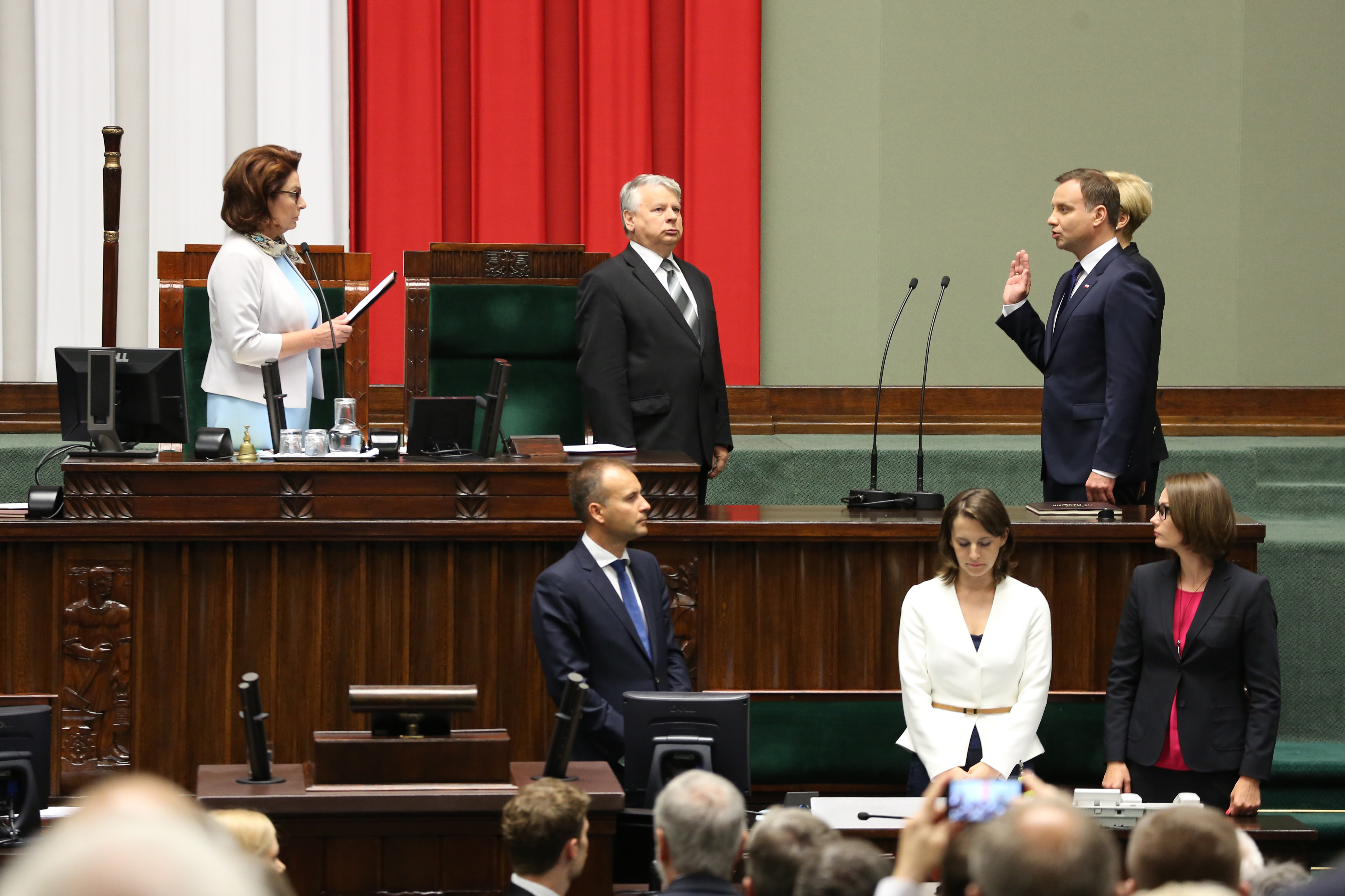 Andrzej Duda taking a presidential oath in front of the National Assembly